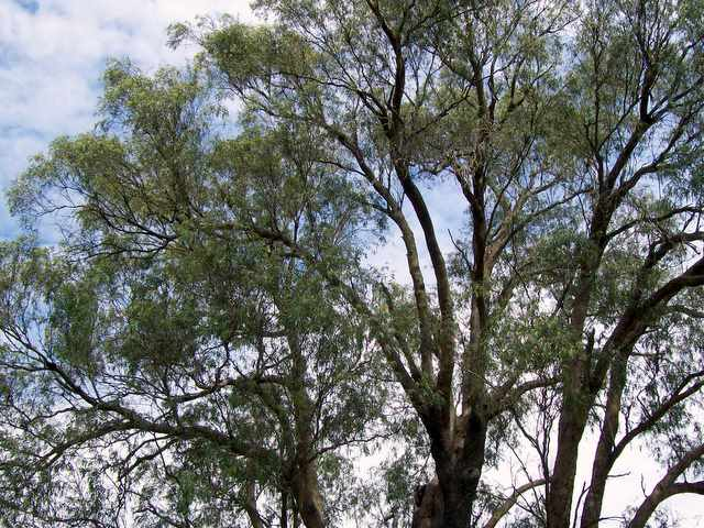 Eucalyptus macarthurii, Camden Woollybutt at Bowral